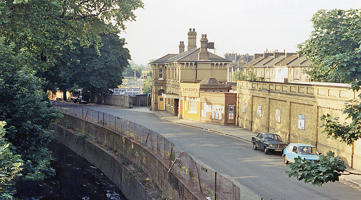 Catford Bridge station, 1983. View northward from bridge over the Ravensbourne River, towards Lewisham and London: ex-SE&C Charing/Cannon Street - Lewisham - Beckenham etc. 'Mid-Kent' line.